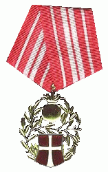 After